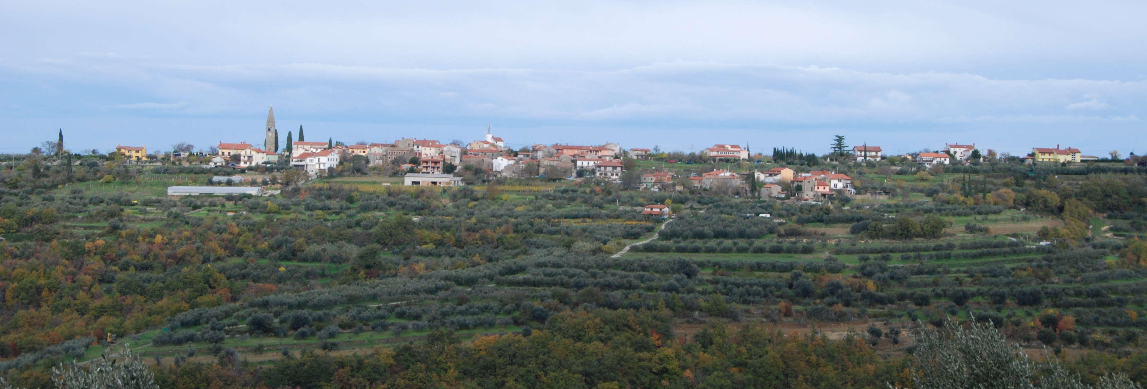 Nova Vas nad Dragonjo, a village in the Municipality of Piran, southwestern Slovenia. View from the nearby Krkavče.